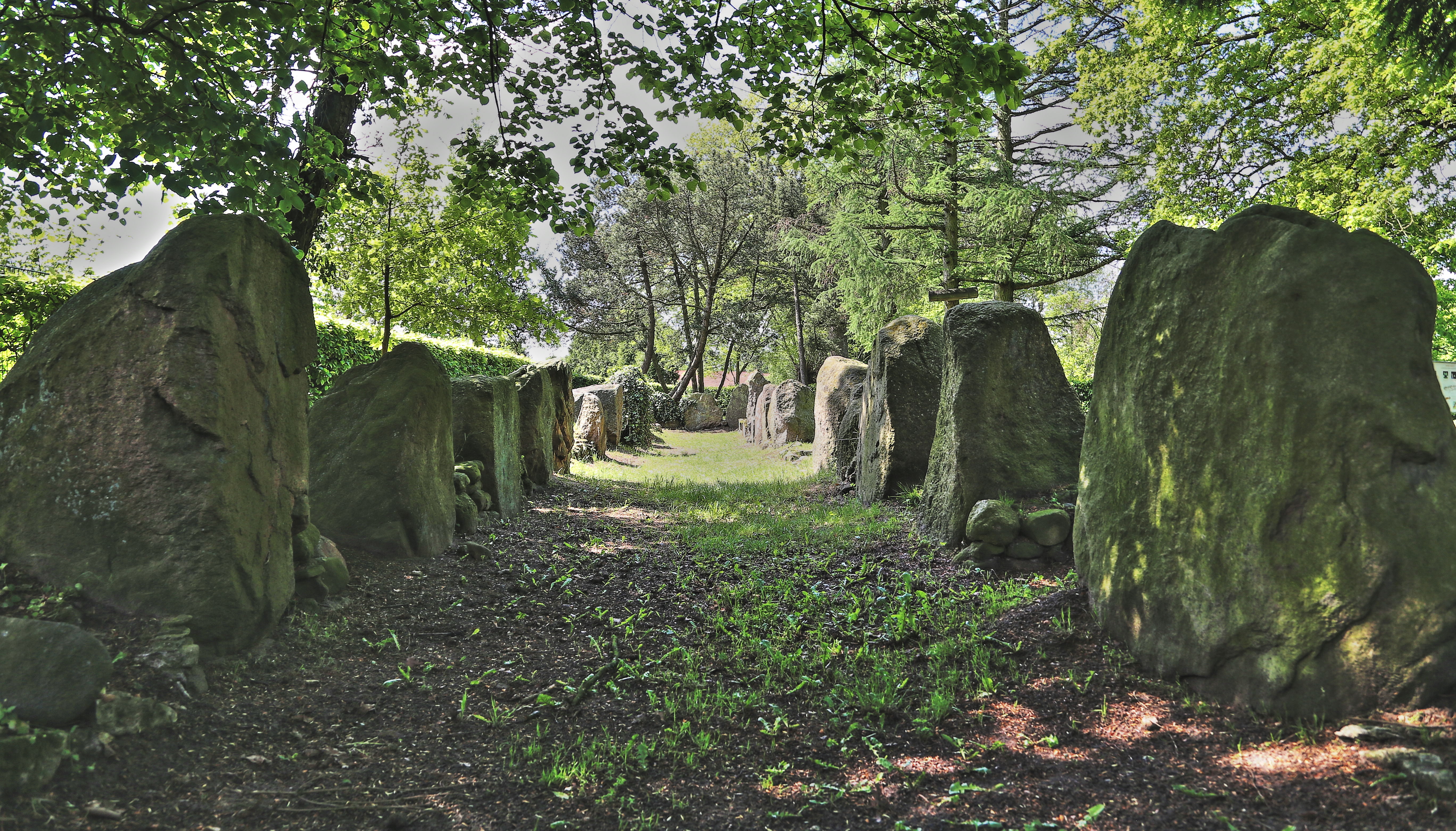 Dolmen Lengerich-Wechte I in Lengerich-Wechte, Kreis Steinfurt, North Rhine-Westphalia, Germany.